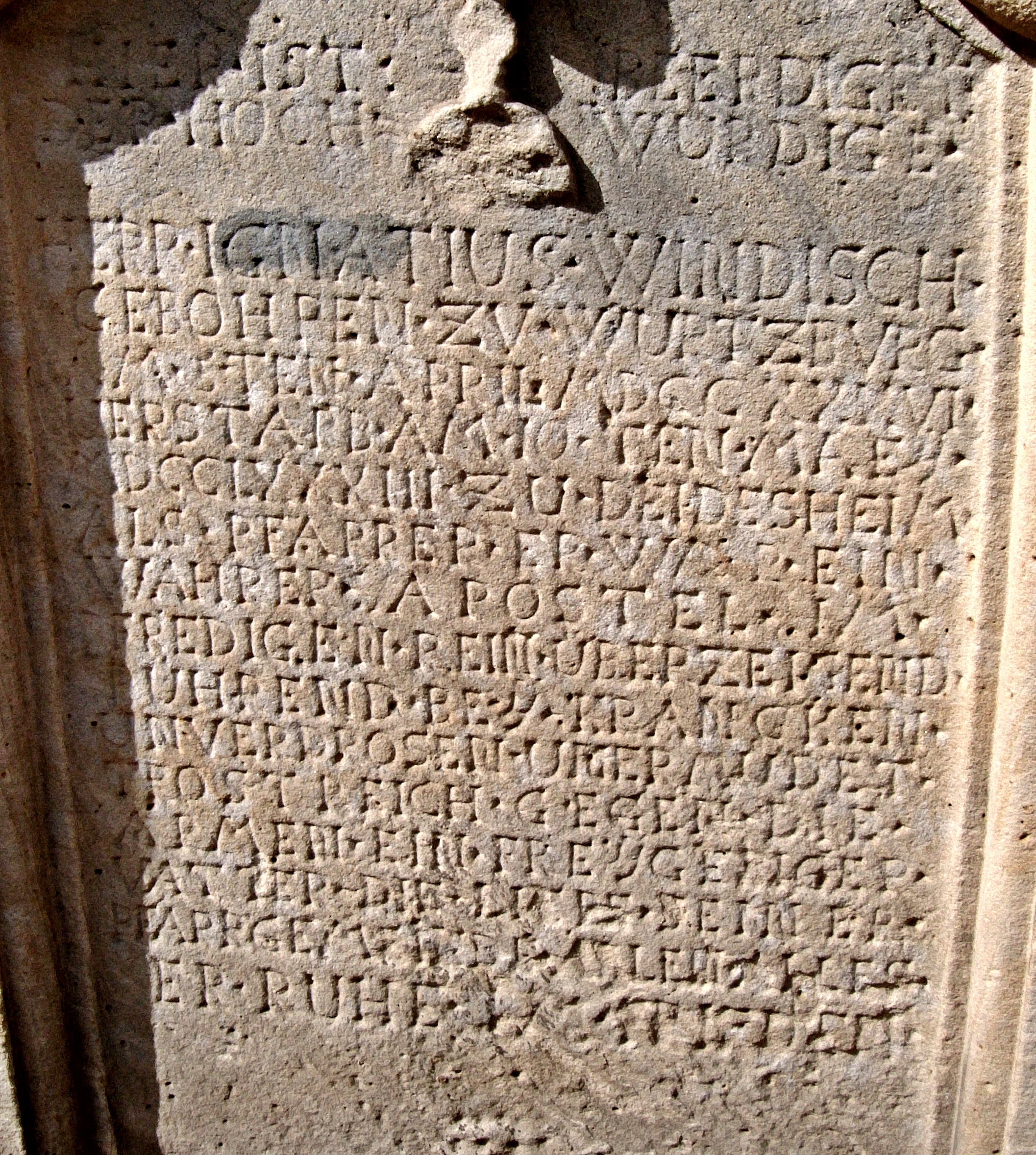 Grabstein des Jesuitenpaters und Pfarrers Ignaz Windisch (+ 1783), Deidesheim